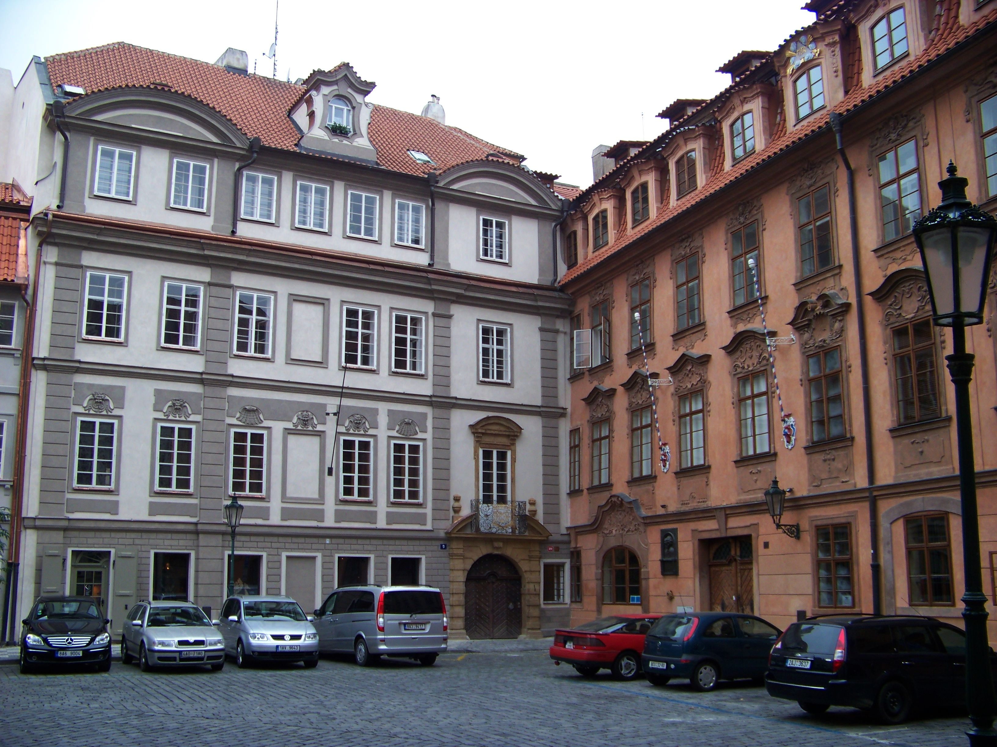 Prague-Malá Strana, the Czech Republic. Lázeňská 289/9 and 285/11.